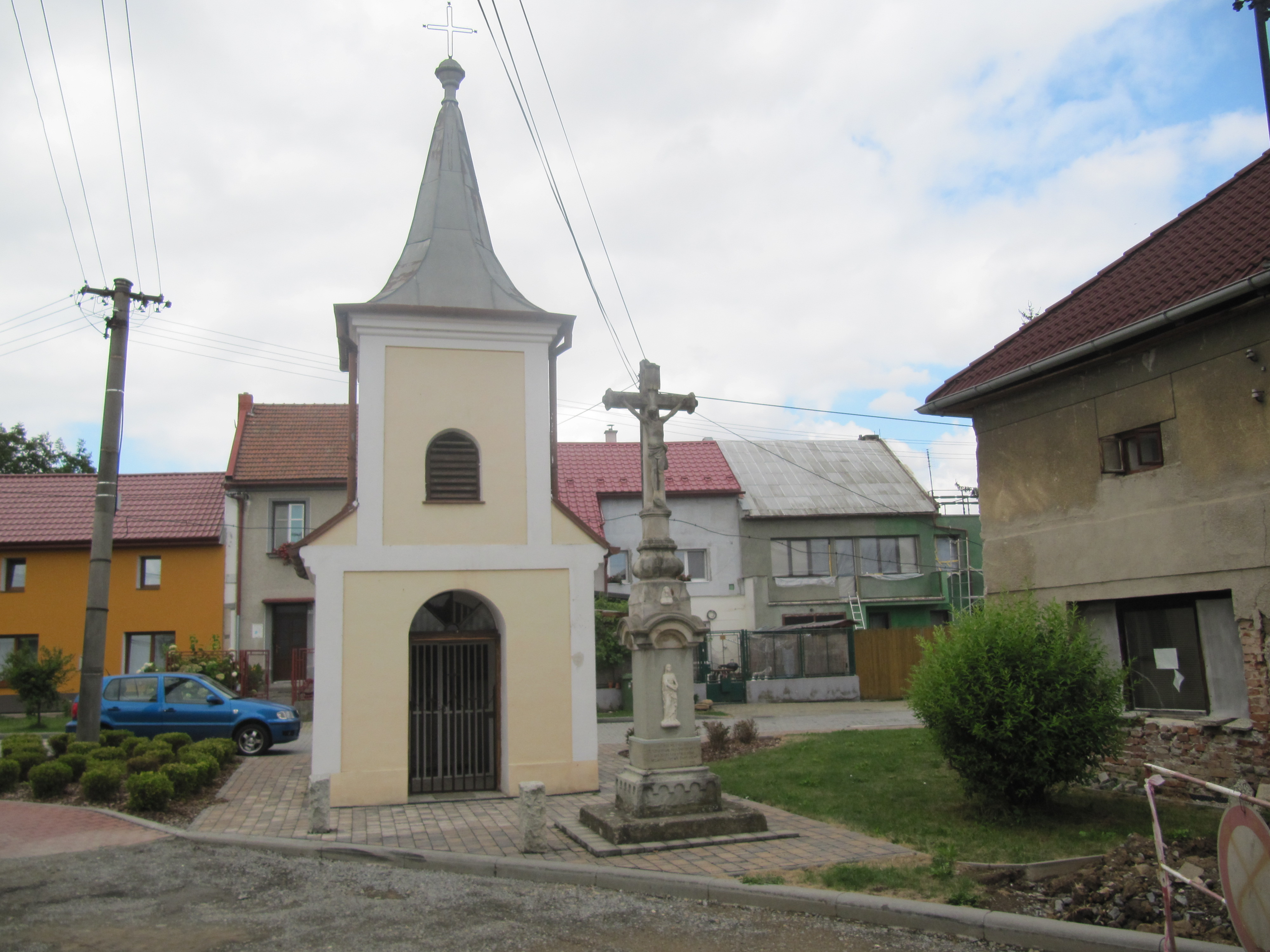 Vrchoslavice, Prostějov District, Czech Republic, part Dlouhá Ves.